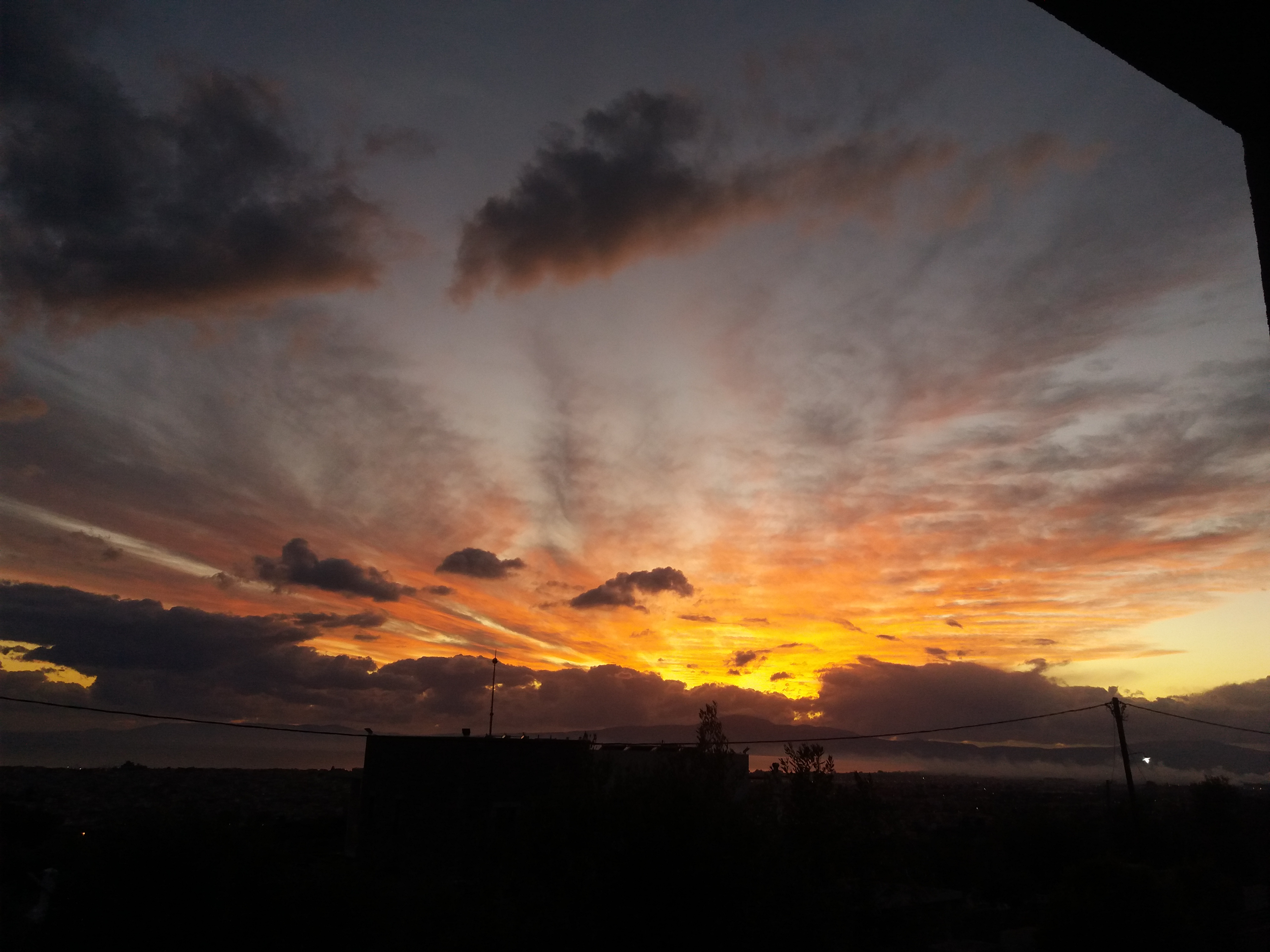 This is a photography of Natura 2000 protected area with ID GR2550006